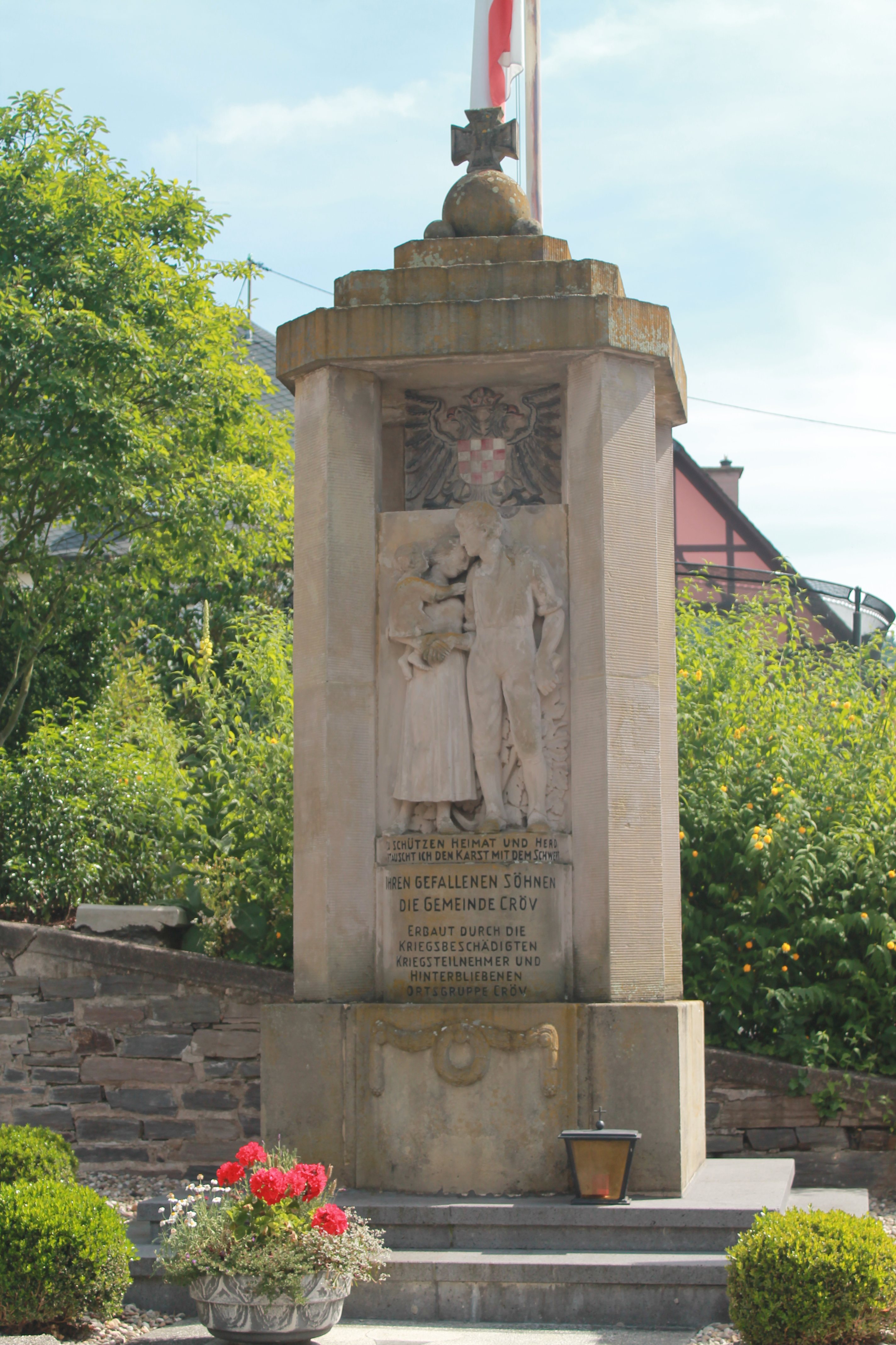 War Memorial in Kröv.